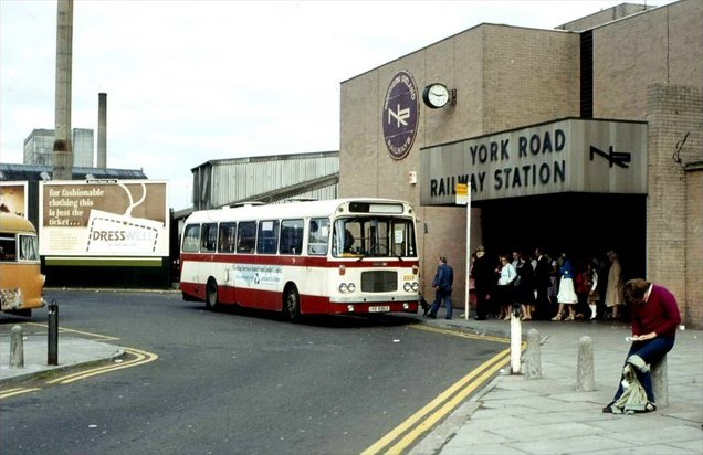 York Road station, Belfast was the terminus of the Belfast & Northern Counties Railway serving Cos. Antrim and Londonderry. It was badly damaged by the Luftwaffe during WWII and during the bombing campaign in the 70's. Demolition for the M2-M1 link road meant that it was totally isolated from the city centre. The diversion of Londonderry trains via Antrim and Lisburn in 1978 left it with just the Larne-line trains. By then it had been rebuilt as shadow of itself. A bus (under the name "Rail-Link") was provided to link the station to Central. Inevitably a Bristol with fibreglass seats and (very loud) piped music it was not a pleasant experience. Now replaced by Yorkgate on the cross-harbour line).